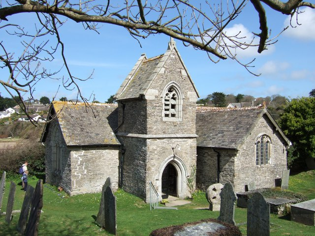 St. Michael's, Porthilly A lovely little church in a splendid setting next to the beach at Porthilly, near Rock, Cornwall.